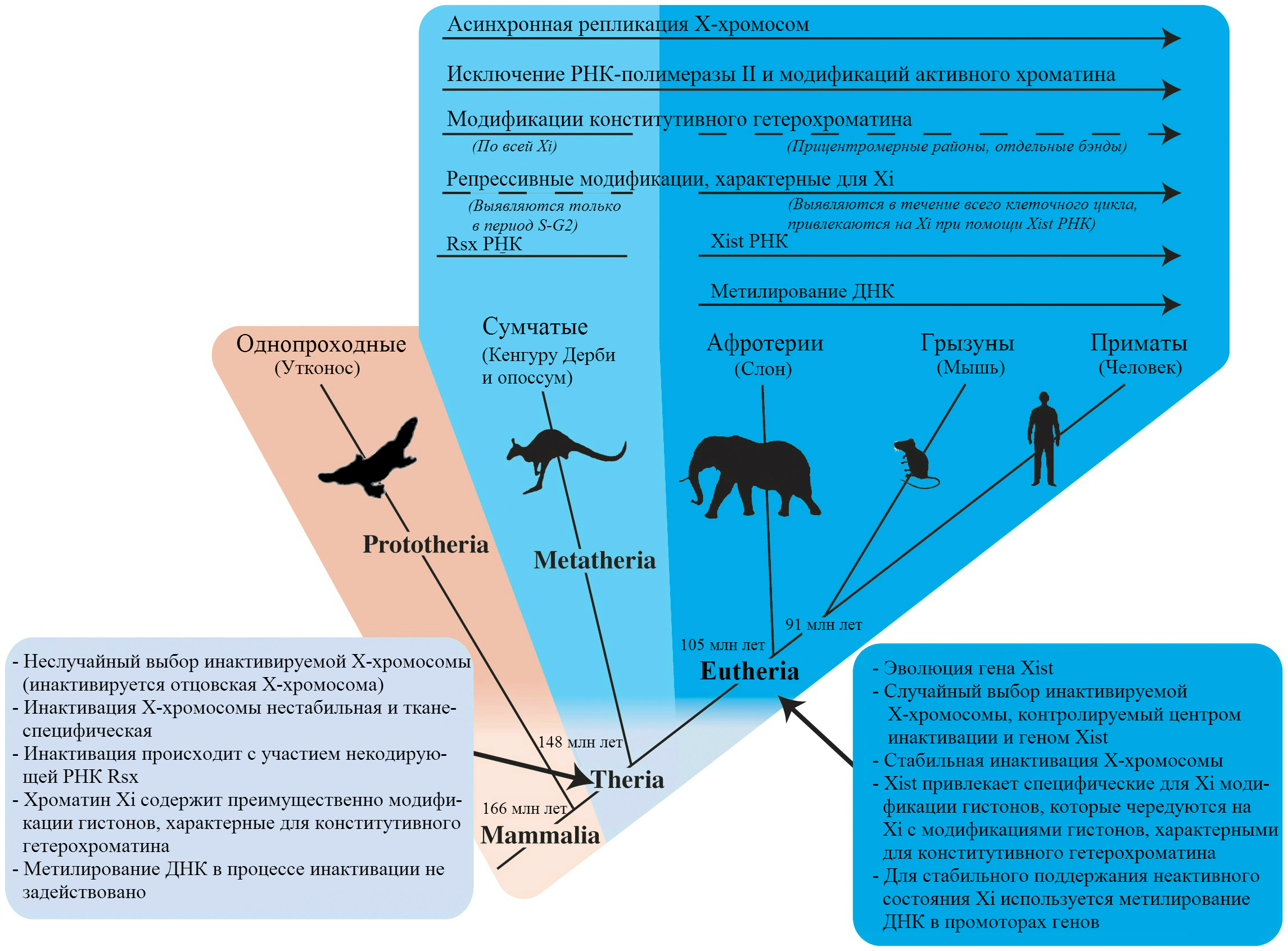 A model for the evolution of mammalian X-chromosome inactivation. Arrows above the phylogeny show epigenetic features underlying X chromosome inactivation (solid arrows indicate stable components of XCI within the clades, whereas dashed lines indicate unstable repressive modification).